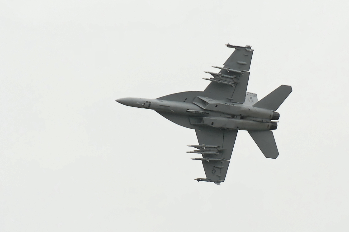 F/A-18E/F Super Hornet during the 2007 International Paris Air Show at the Le Bourget airport.